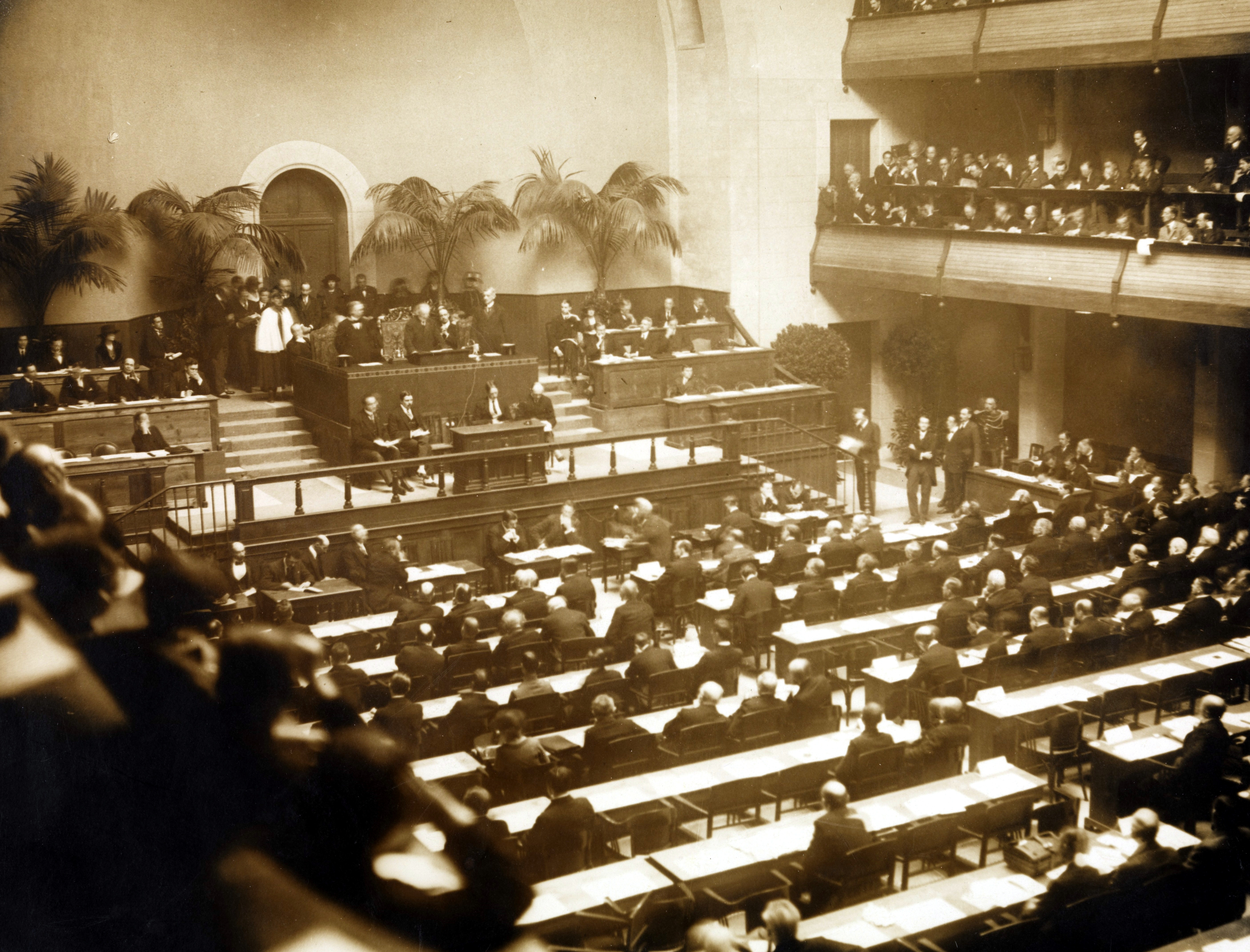 Salle de la Reformation. The official opening of the League of Nations.